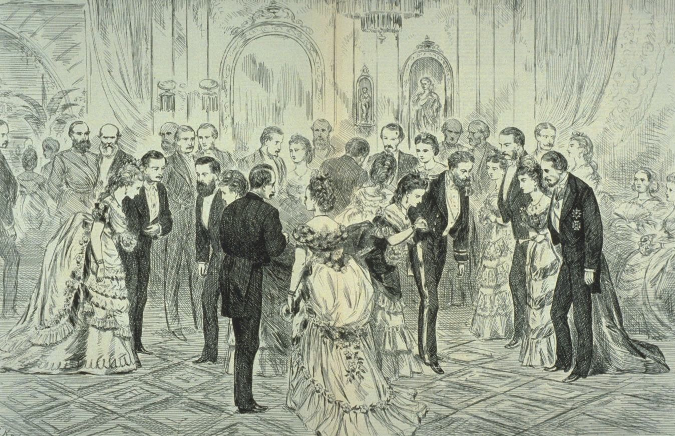 Ball at Ravenscrag in Honor of Lord Dufferin, Ballroom, Hugh Allan House "Ravenscrag", 835-1025 Pine Avenue West, Montreal, Quebec, Canada.